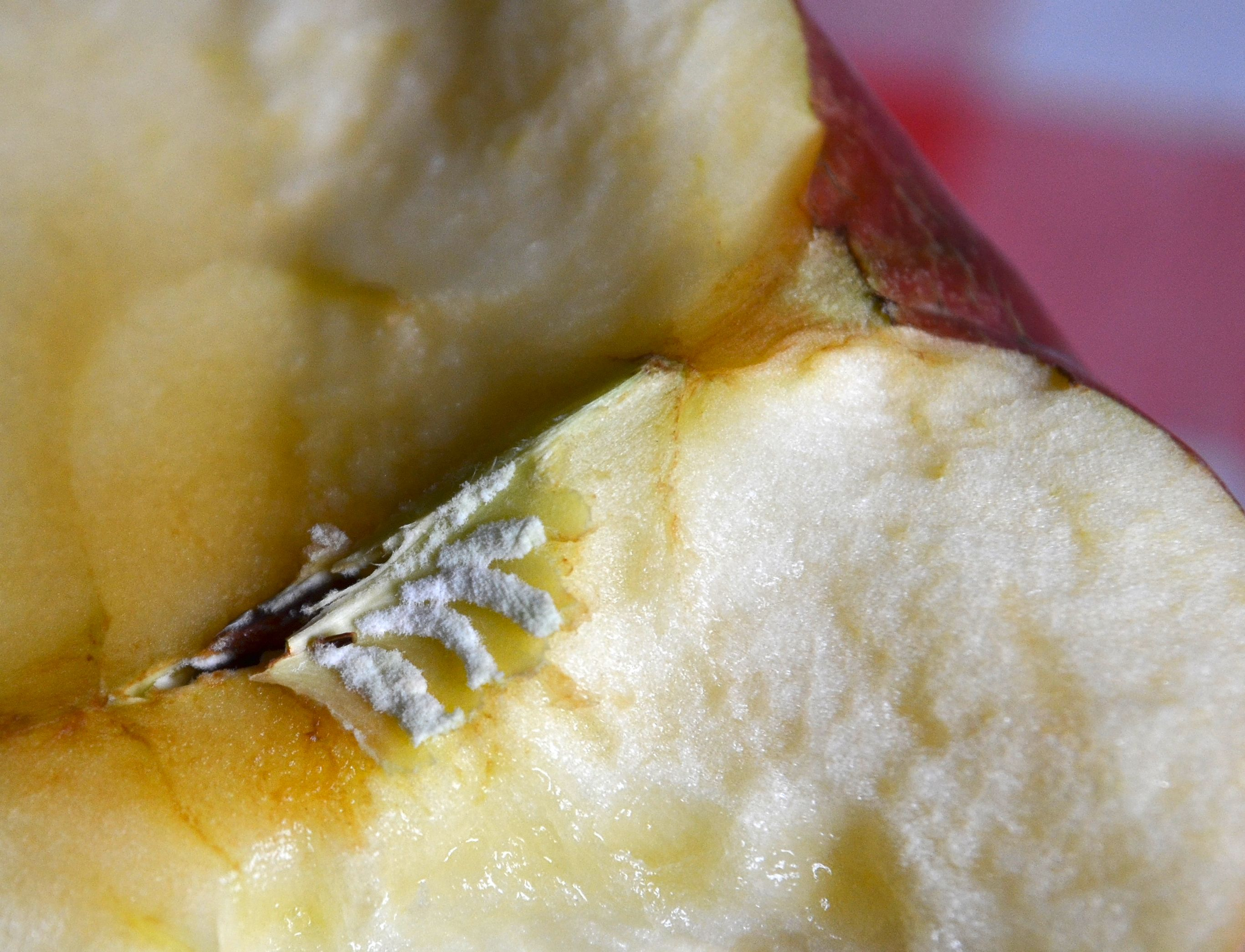 Some mildew of fungus on Fuji apple.